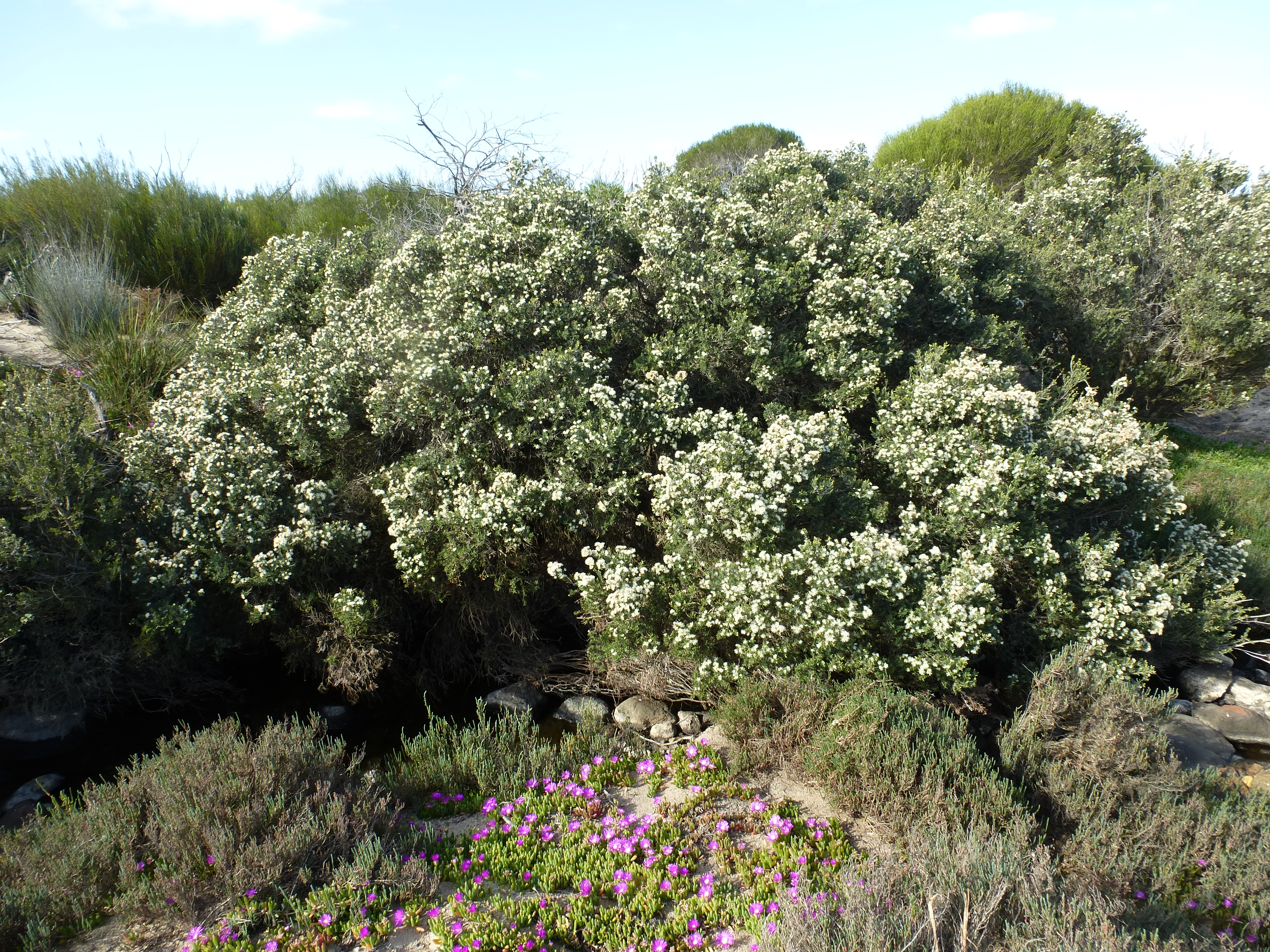 Melaleuca ordinifolia growing near the Hamersley River